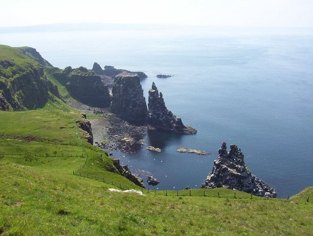 Kebble Bird Sanctuary, Rathlin Island, Co. Antrim RSPB Bird Sanctuary,on NW coast of Rathlin Island, inhabited by guillemots,razorbills,kittywakes,fulmers, and other birds, during the early/mid summer breeding season.